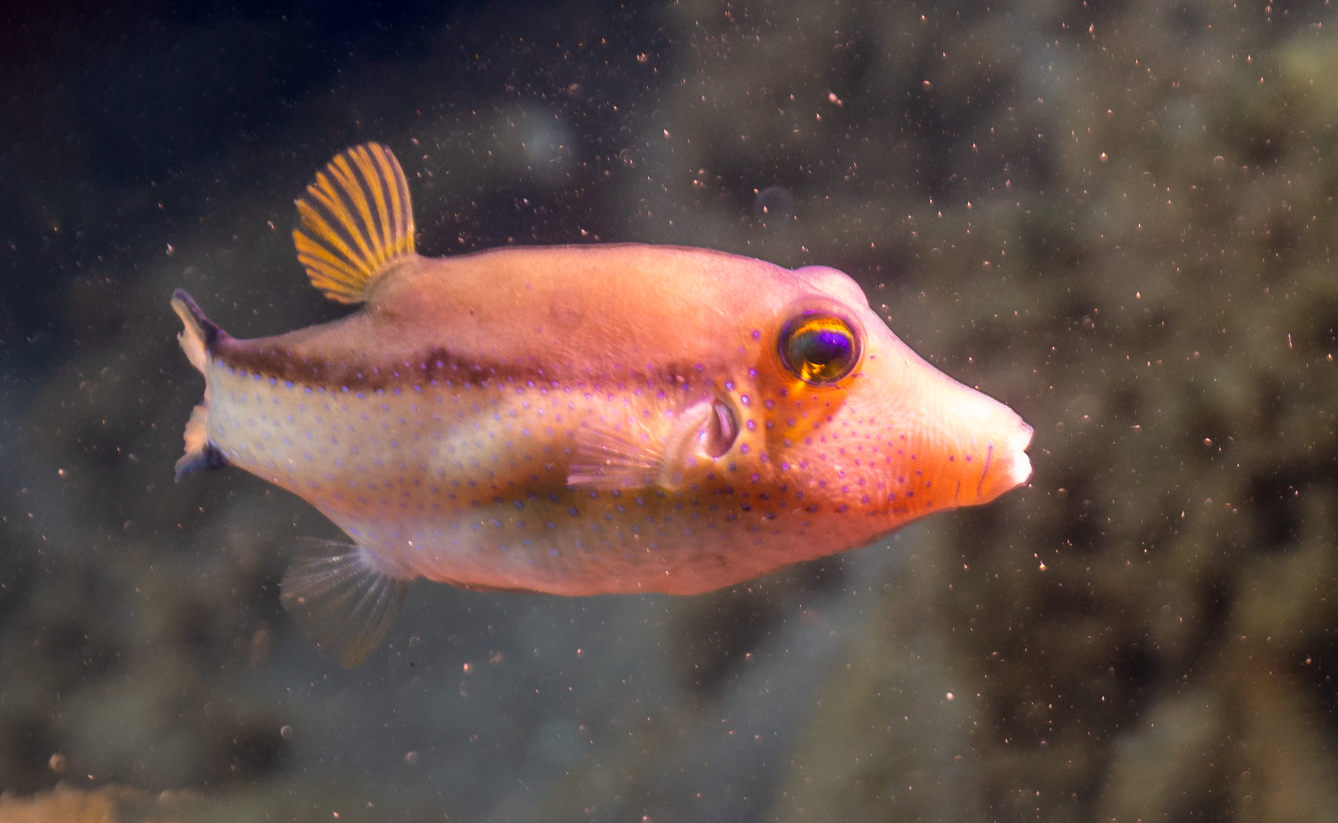 Caribbean sharp-nose puffer (Canthigaster rostrata), Madeira, Portugal